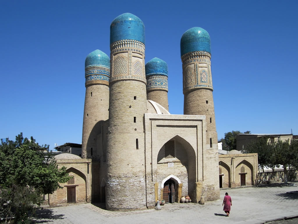 The Char Minar (1807) in Bukhara, Uzbekistan, was originally the gatehouse of a disappeared religious school.